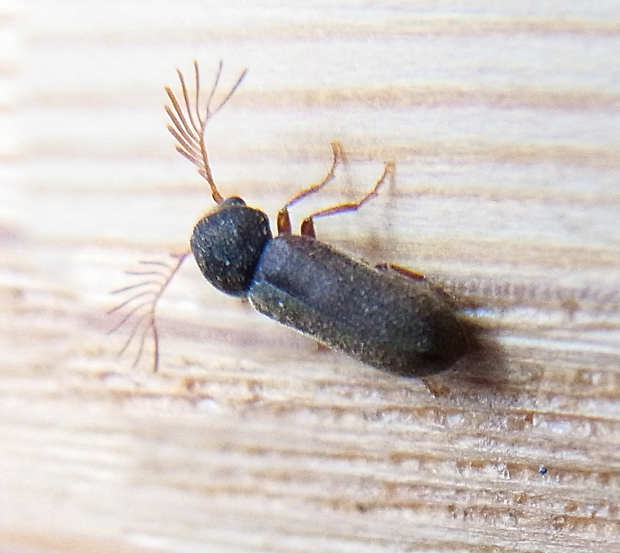 male Ptilinus pecticornis from South-West-Germany between Tuttlingen and Rottweil, 700 m